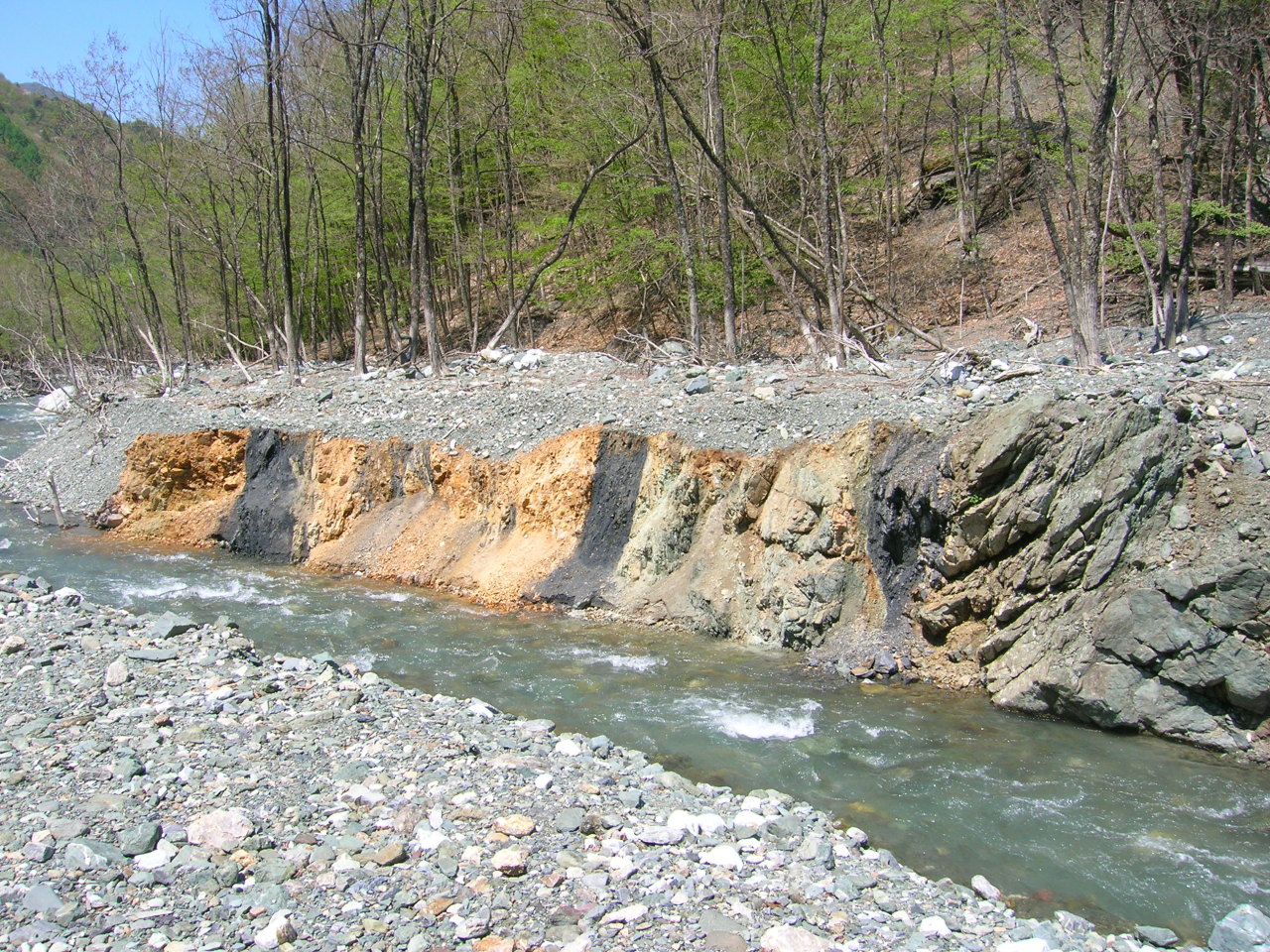 Chuou Kouzousen, Ankou Rotou. (Median Tectonic Line, Ankou outcrop.) Loc: Ōshika, Nagano Prefecture, Japan 中央構造線・安康露頭。 撮影場所 長野県下伊那郡大鹿村